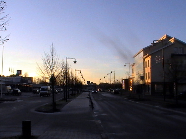 The street of Kauppatie at Nakkila, Finland. It's known as the main street of Nakkila commune's centre.